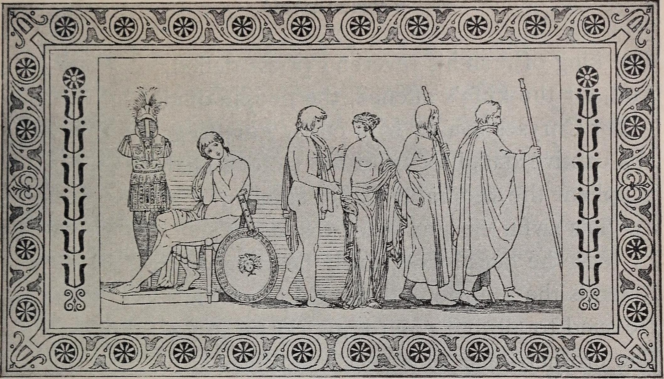 Title: Pope's The Iliad of Homer, books I, VI, XXII, and XXIV; Year: 1899 (1890s) Authors: Homer Pope, Alexander, 1688-1744 Shorey, Paul, 1857-1934 Subjects: Achilles (Greek mythology) Epic poetry, Greek Publisher: Boston, D. C. Heath & co. Text Appearing Before Image: ' Text Appearing After Image: y. Flax man and A. S chill. THE ILIAD. BOOK I. THE CONTENTION OF ACHILLES AND AGAMEMNON. Achilles wrath, to Greece the direful spring Of woes unnumberd, heavnly Goddess, sing ! That wrath which hurld to Plutos gloomy reign The souls of mighty chiefs untimely slain : Whose limbs, unburied on the naked shore, 5 Devouring dogs and hungry vultures tore : Since great Achilles and Atrides strove, Such was the sovereign doom, and such the will of Jove ! Declare, O Muse ! in what ill-fated hourSprung the fierce strife, from what offended power? iqLatonas son a dire contagion spread,And heapd the camp with mountains of the dead; 2 THE ILIAD. The king of men his reverend priest defied,And, for the kings offence, the people died. For Chryses sought with costly gifts to gain 15 His captive daughter from the victors chain.Suppliant the venerable father stands;Apollos awful ensigns grace his hands :By these he begs : and, lowly bending down,Extends the sceptre and the laurel crown. 20 He sued to al